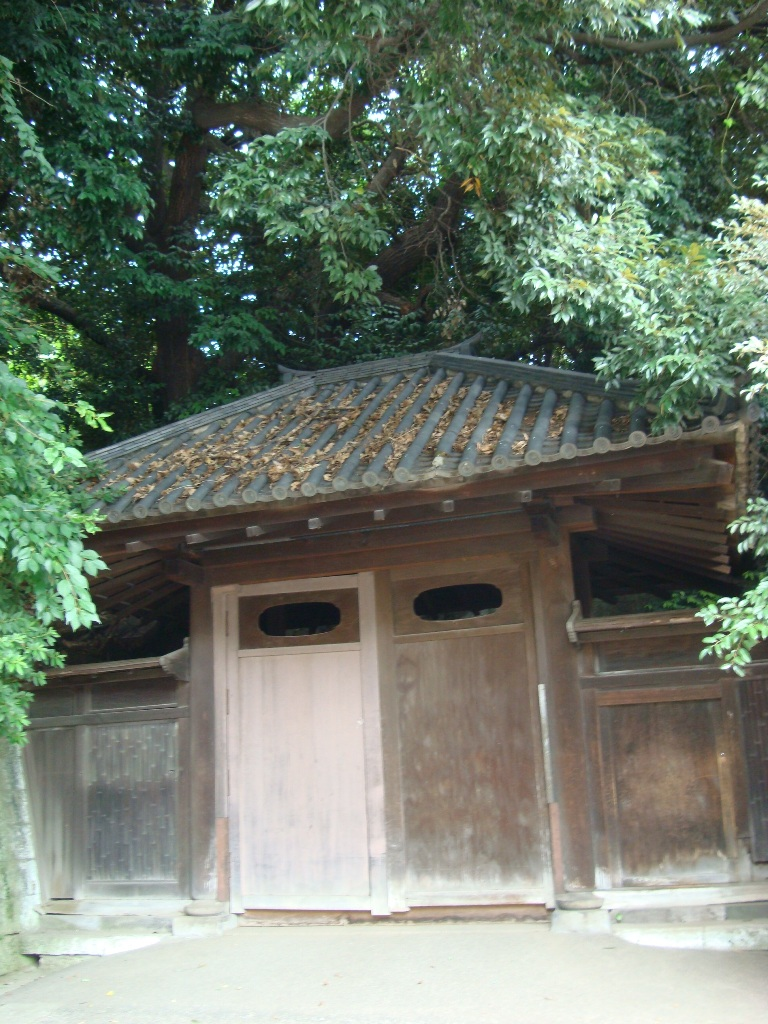 A gate of former Hanezawa Garden, Shibuya city, Tokyo